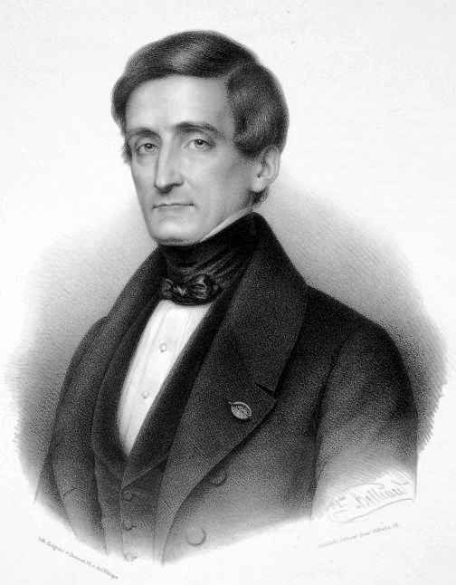 Italian composer Lauro Rossi (1812-1885) by Zéphyrin Belliard (1771-1850).